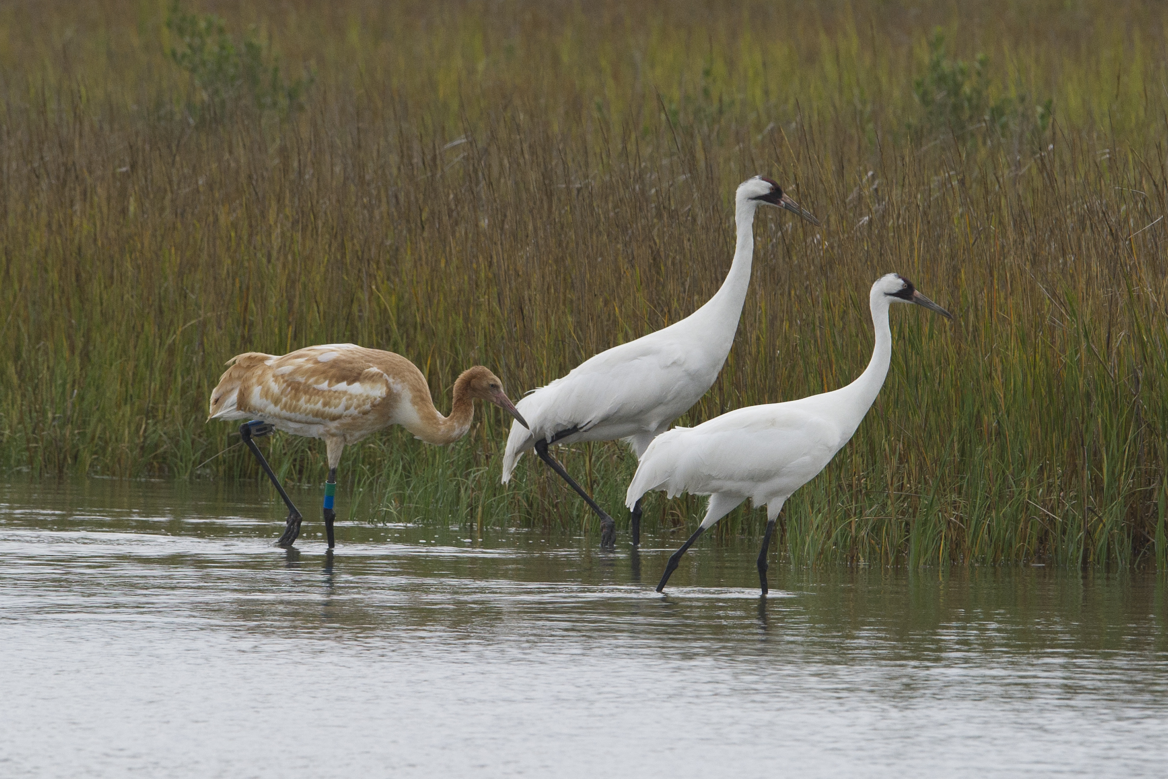 Whooping Cranes (Grus americana) in marsh in Texas. USDA Photo by John Noll.